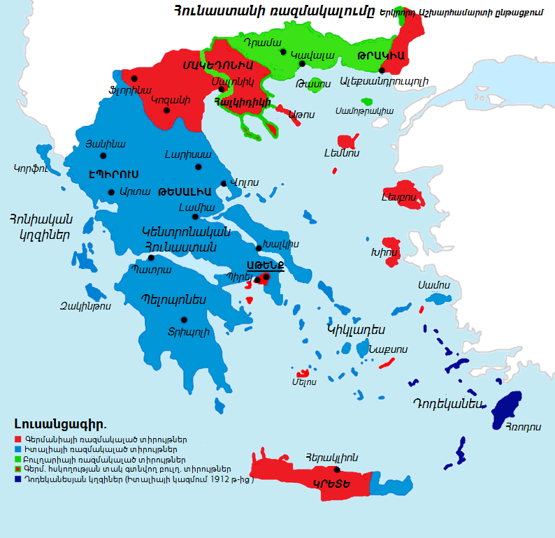 Occupation of Greece in World War II